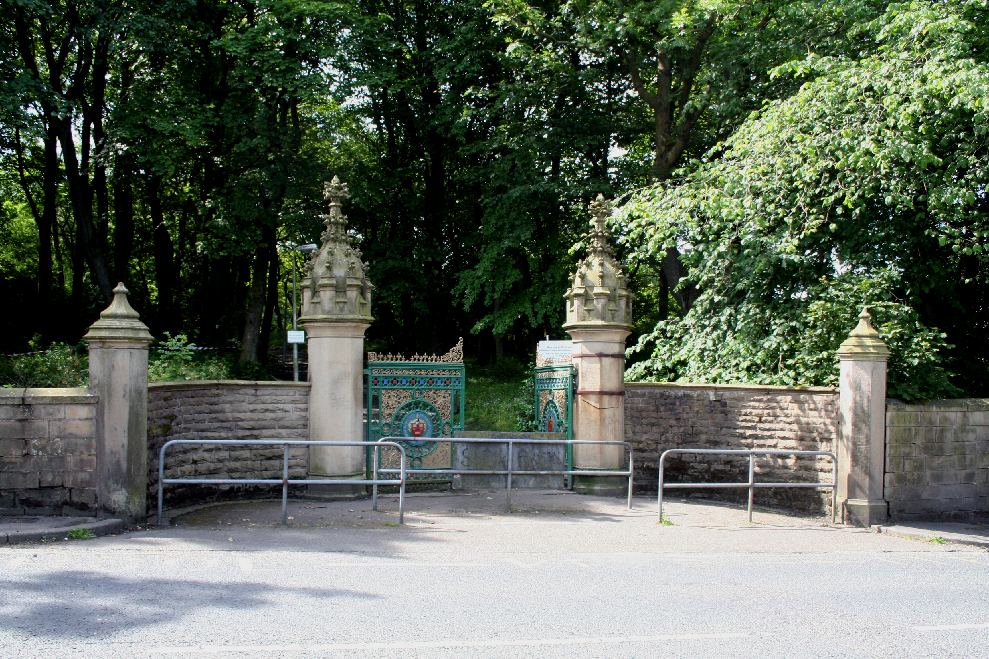 Photograph of the gateway to Stubbylee Park, Bacup, Lancashire